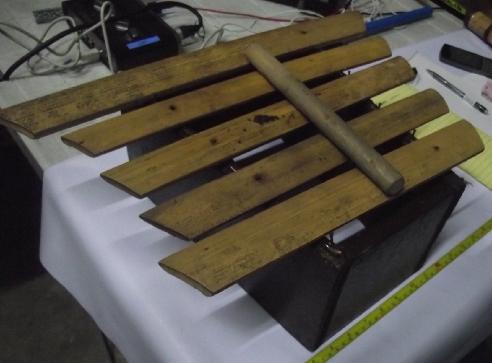 The Gabbang (bamboo xylophone) from Tausug, Palawan, Philippines. The Gabbang in the picture is a property of UP Kontra-Gapi.